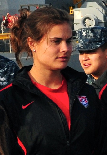 SAN DIEGO (Jan.10.2012) Senior Chief Aviation Boatswain's Mate David Bello gives a tour of the amphibious assault ship USS Bonhomme Richard's (LHD 6) flight deck to the U.S. Women's National Soccer Team. (U.S. Navy photo by Mass Communication Specialist Seaman Nathan J. Lang/Released)